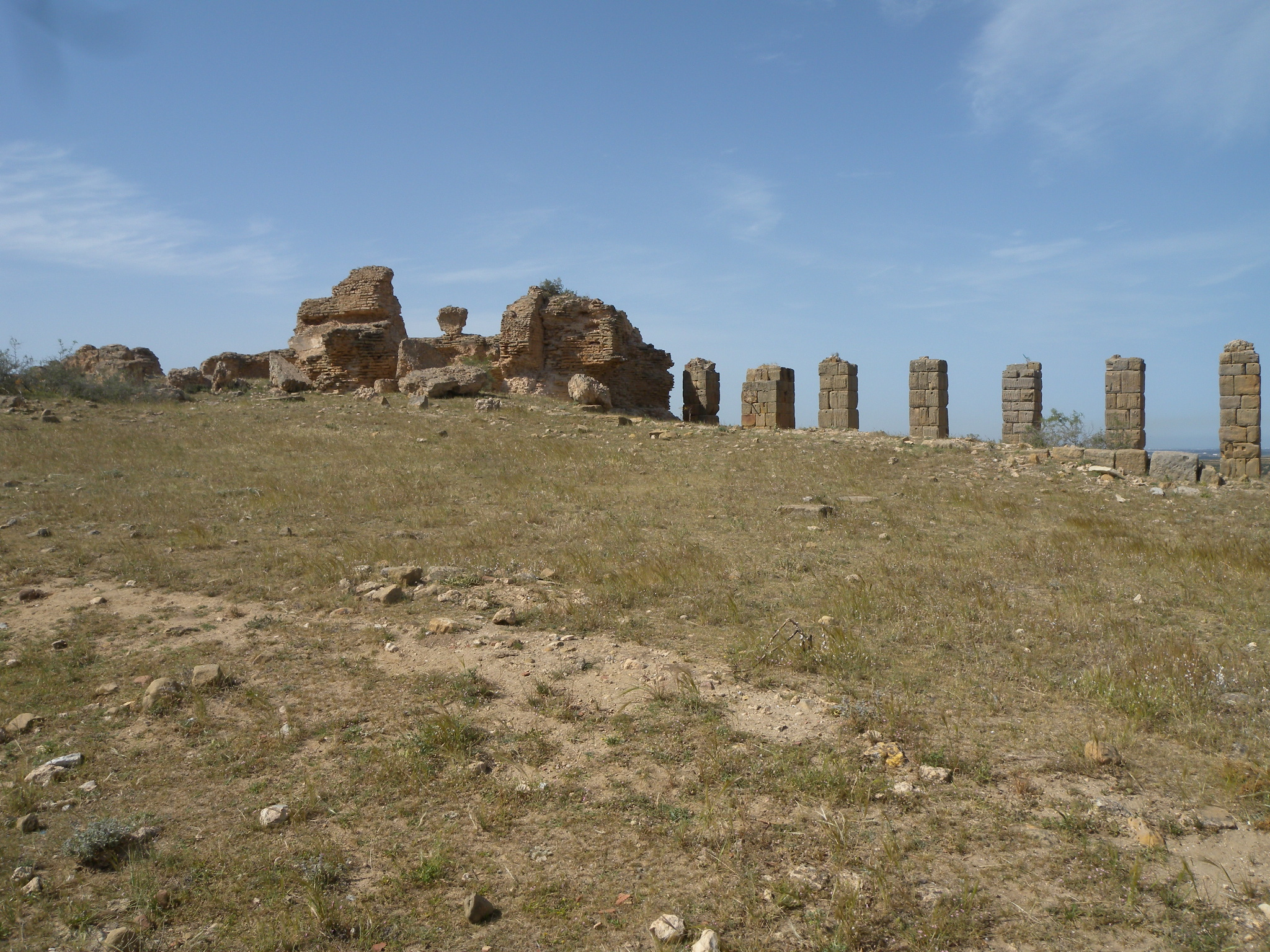 Aqueduct in Oudna-Uthina (Tunisia)